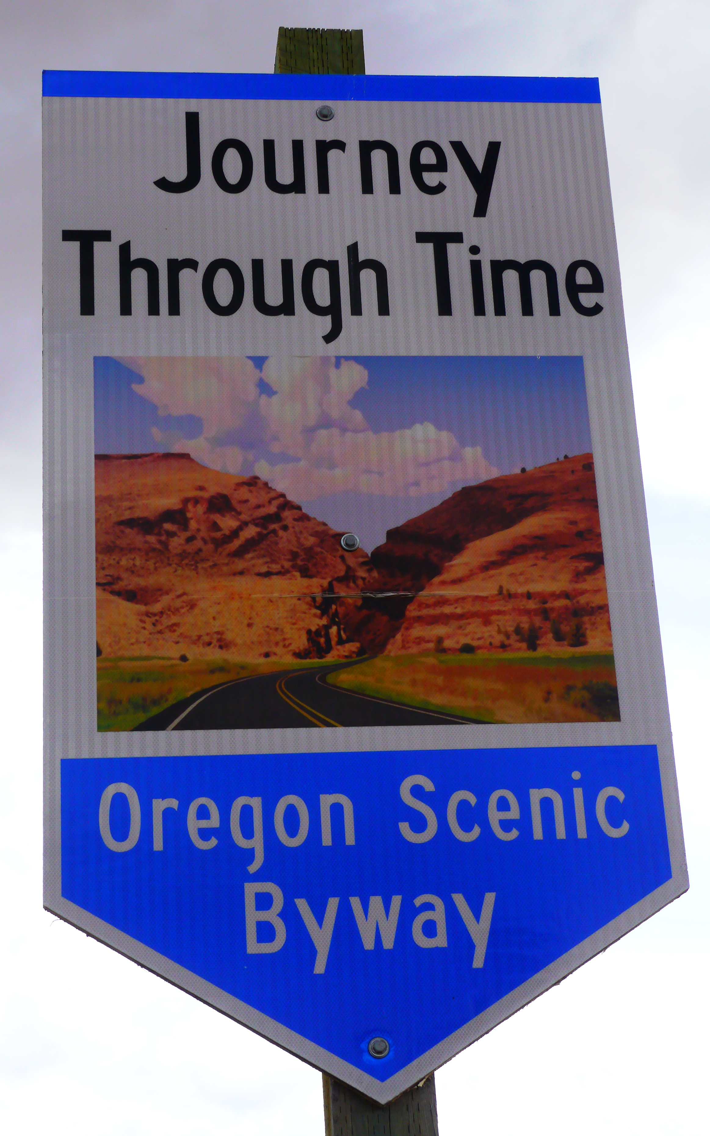 This sign is near Dayville, Oregon. Dayville is a city along U.S. Route 26 in Grant County, in the U.S. state of Oregon. It was incorporated in 1913. Dayville was named for the John Day River. The city is 125 miles (201 km) east of Bend and 233 miles (375 km) southeast of Portland at the confluence of the John Day River with the South Fork John Day River. U.S. Route 26 runs east–west through Dayville, and South Fork Road, which runs north–south along the smaller river, meets the larger highway in the city. Murderers Creek State Wildlife Area, the Aldritch Mountains, and parts of the Malheur National Forest are slightly southeast of Dayville. Slightly southwest are the Black Canyon Wilderness, the Ochoco Mountains, and parts of the Ochoco National Forest. (